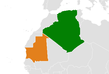 Map highlighting Algeria in green and Mauritanina in orange.